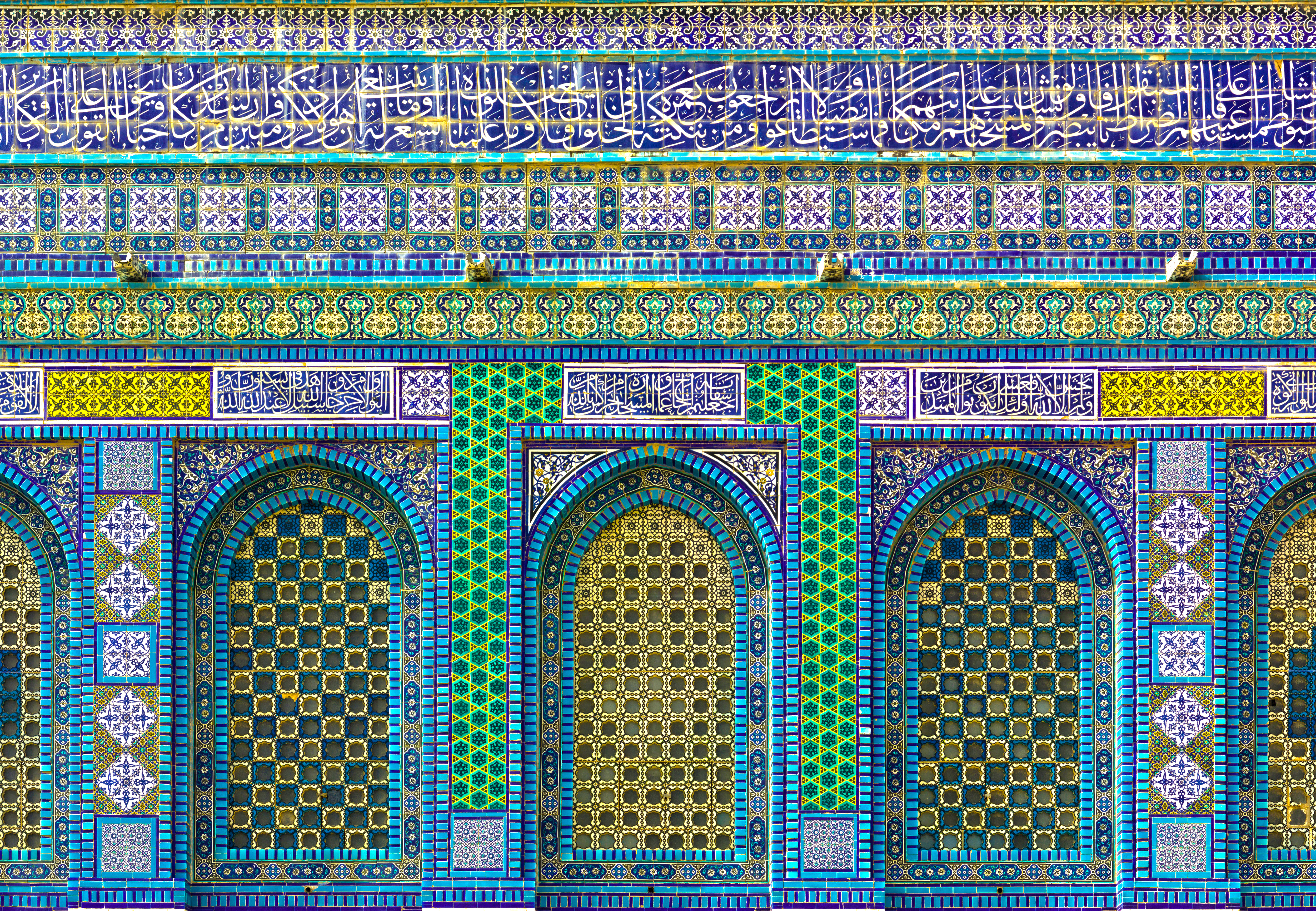 Dome of the Rock (Arabic: مسجد قبة الصخرة, Hebrew: כיפת הסלע), (NE facade, panel detail with ceramic tiles on the Temple Mount in the Old City of Jerusalem. The tiles were added as part of the redecoration of the building ordered by Sultan Suleyman who sent a group of tile-makers from Istanbul to Jerusalem. They were led by Abdullah Tabrizi who signed the cut-tile inscription at the top of the drum with the date 952 AH/AD 1545-6 and the inscription above the north porch with the date 959 AH/AD 1551-2. The tile-makers used a range of techniques, including cut-tile work, cuerda seca, and under-glaze. See: Atasoy, Nurhan; Raby, Julian (1989), Iznik: The Pottery of Ottoman Turkey, London: Alexandra Press, ISBN 978-1-85669-054-6, p. 220.Two versions exist of this image: Regular (Non pseudo-HDR) and a pseudo-HDR.